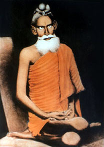 Lokenath Brahmachari (Baba Lokenath)